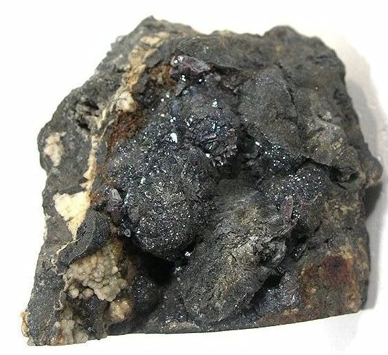 Argentopyrite, Proustite Locality: Jáchymov (St Joachimsthal), Jáchymov (St Joachimsthal) District, Krušné Hory Mts (Erzgebirge), Karlovy Vary Region, Bohemia (Böhmen; Boehmen), Czech Republic (Locality at ) This is an exceedingly rich specimen with good pedigree, containing about the most Argentopyrite you will ever see on one specimen. Argentopyrite is a rare silver species. What is particularly nice about this piece is that the crystallization is so rich it makes for a readily visible cluster of "knobs" so you don't have to look for the usual microcrystal or two. The association with gemmy red proustite crystals is an added bonus! 4.5 x 4.1 x 2 cm